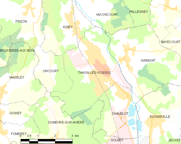 Map of French municipality Thaon-les-Vosges